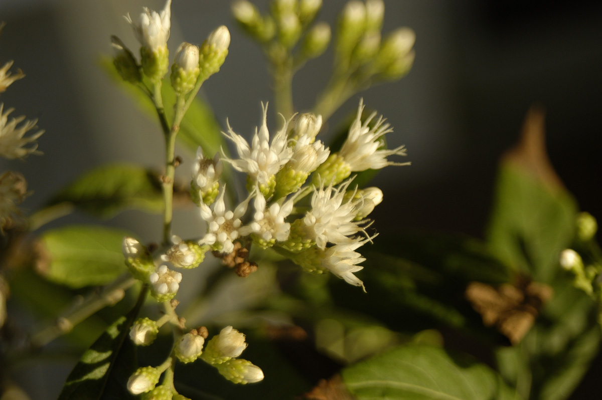 Vernonia condensata Baker = Gymnanthemum amygdalinum